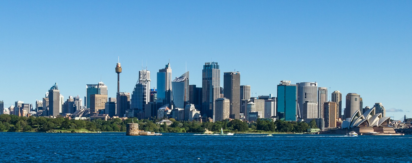 Sydney city skyline, in 2014. Image has been cropped.